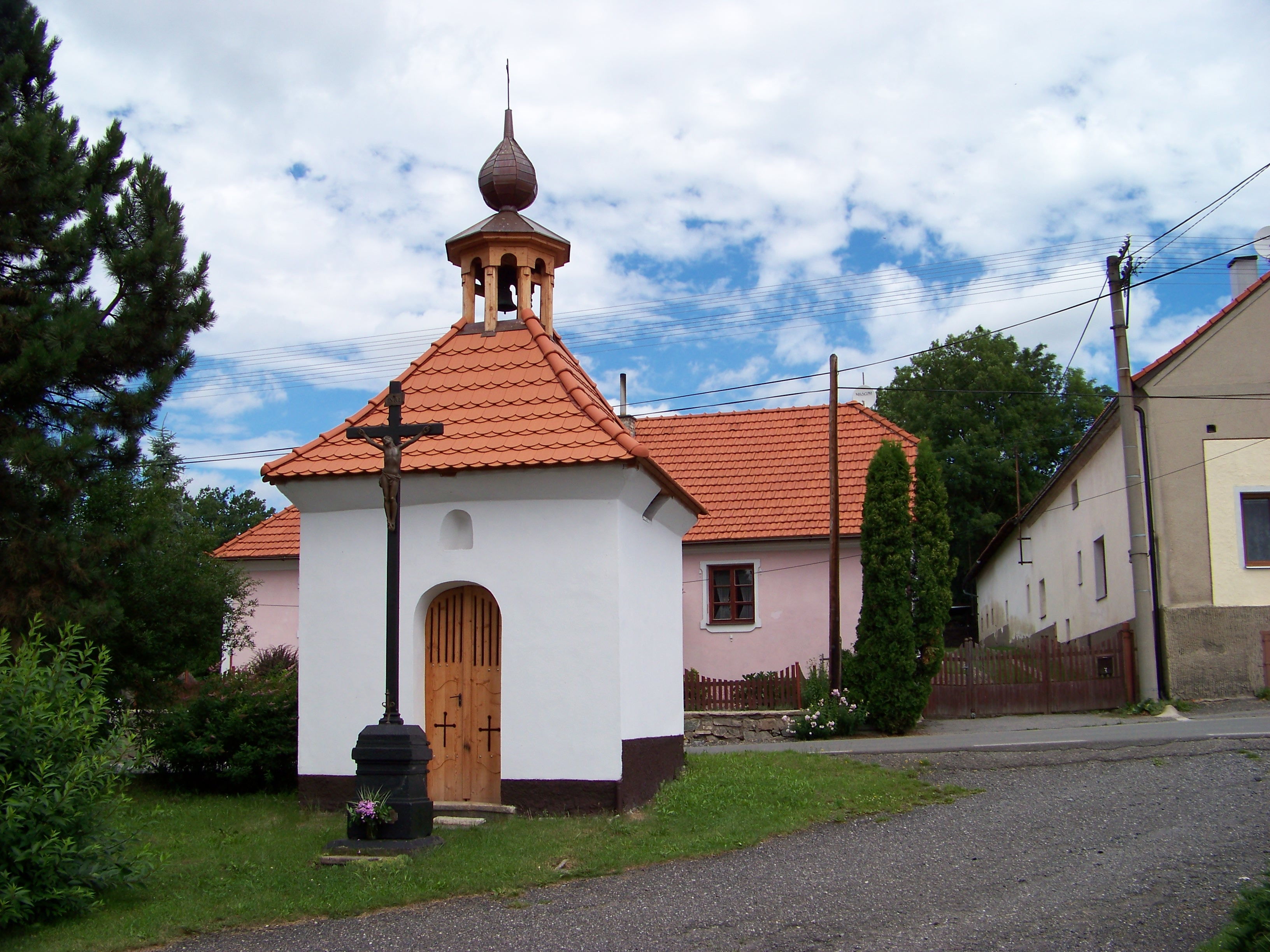 Radětice, Příbram District, Central Bohemian Region, the Czech Republic. Road III/11812 and a chapel.